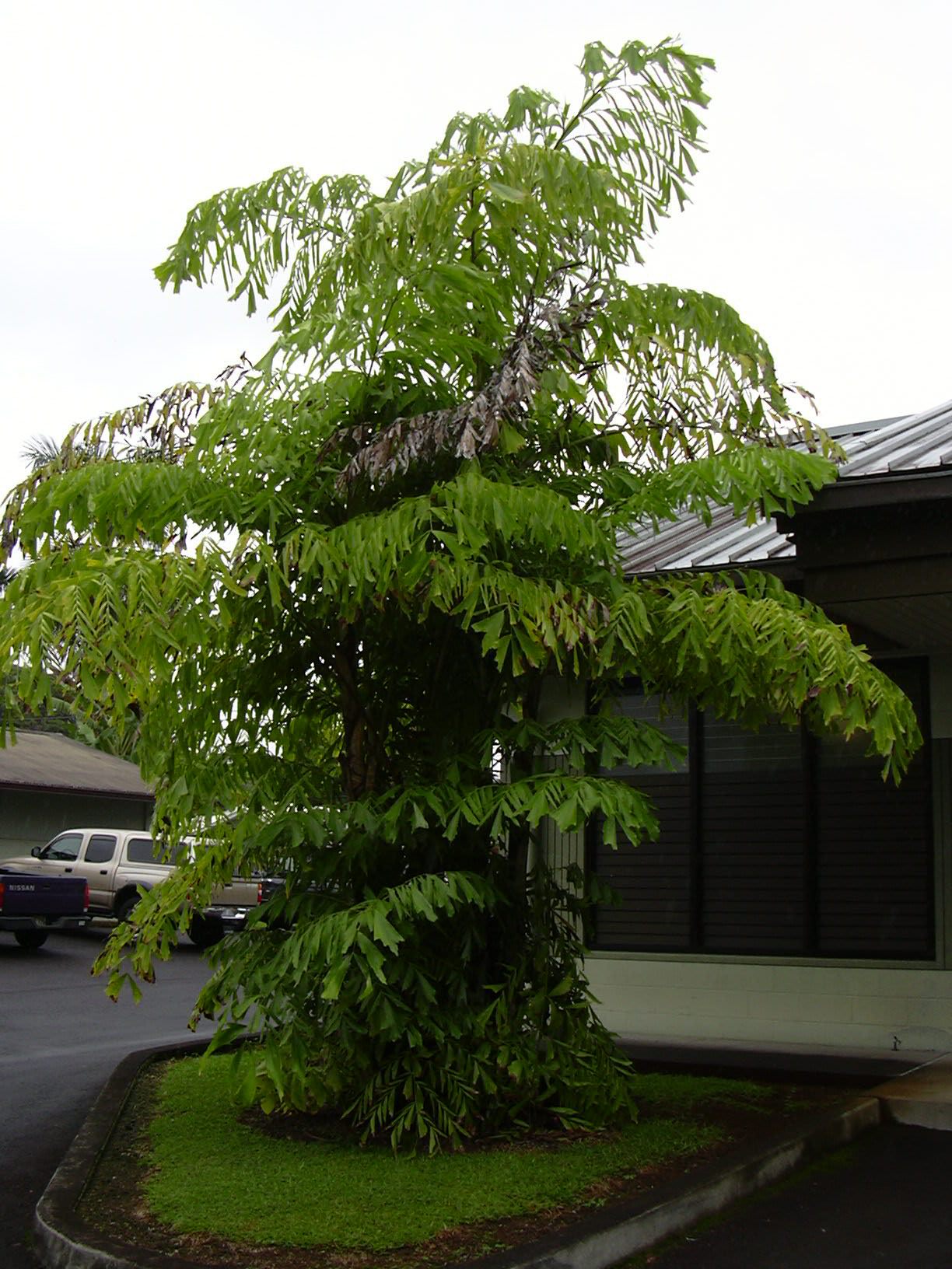 Caryota mitis (habit). Location: Hawaii, Hilo